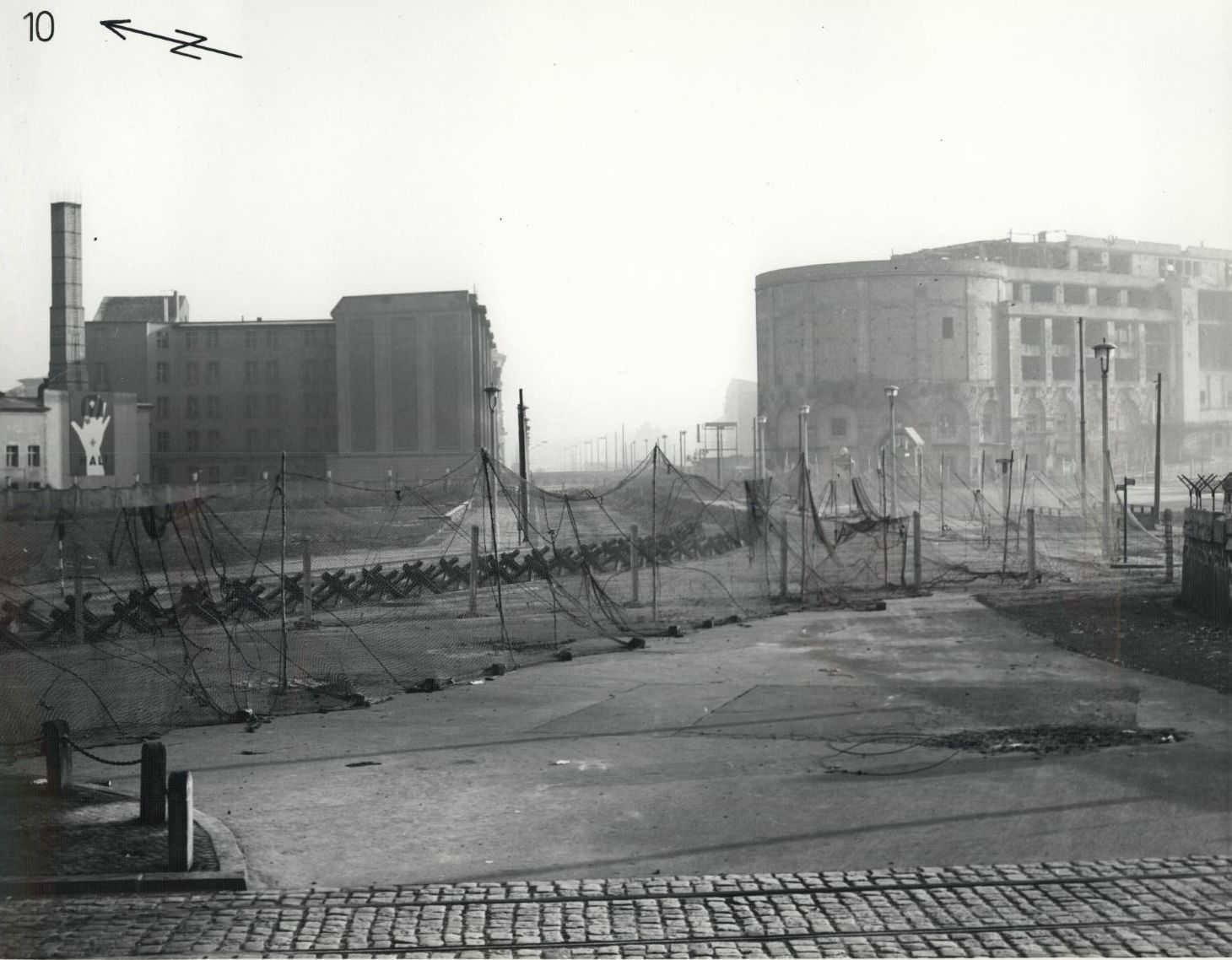 Border fortifications of the Berlin Wall at Potsdamer Platz on November 22, 1961; with the "Haus Vaterland in the background of the right. National Archives; ARC Identifier 6003846 / Local Identifier Inclosure 2 (U) Photo Nr. 10 / MLR Number A-1 3006.